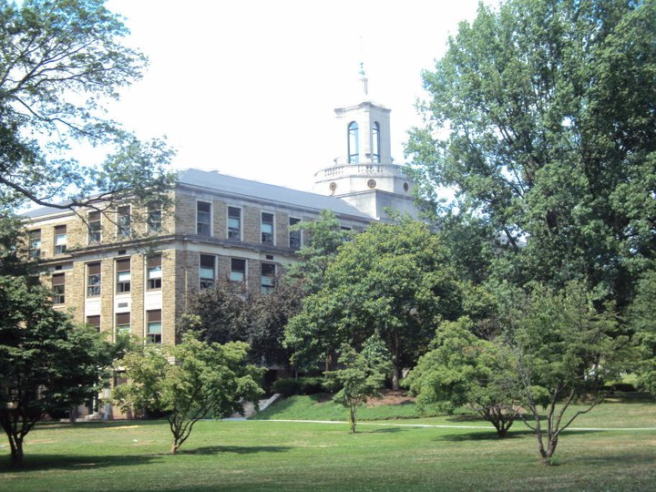 Academic building at Ursinus College